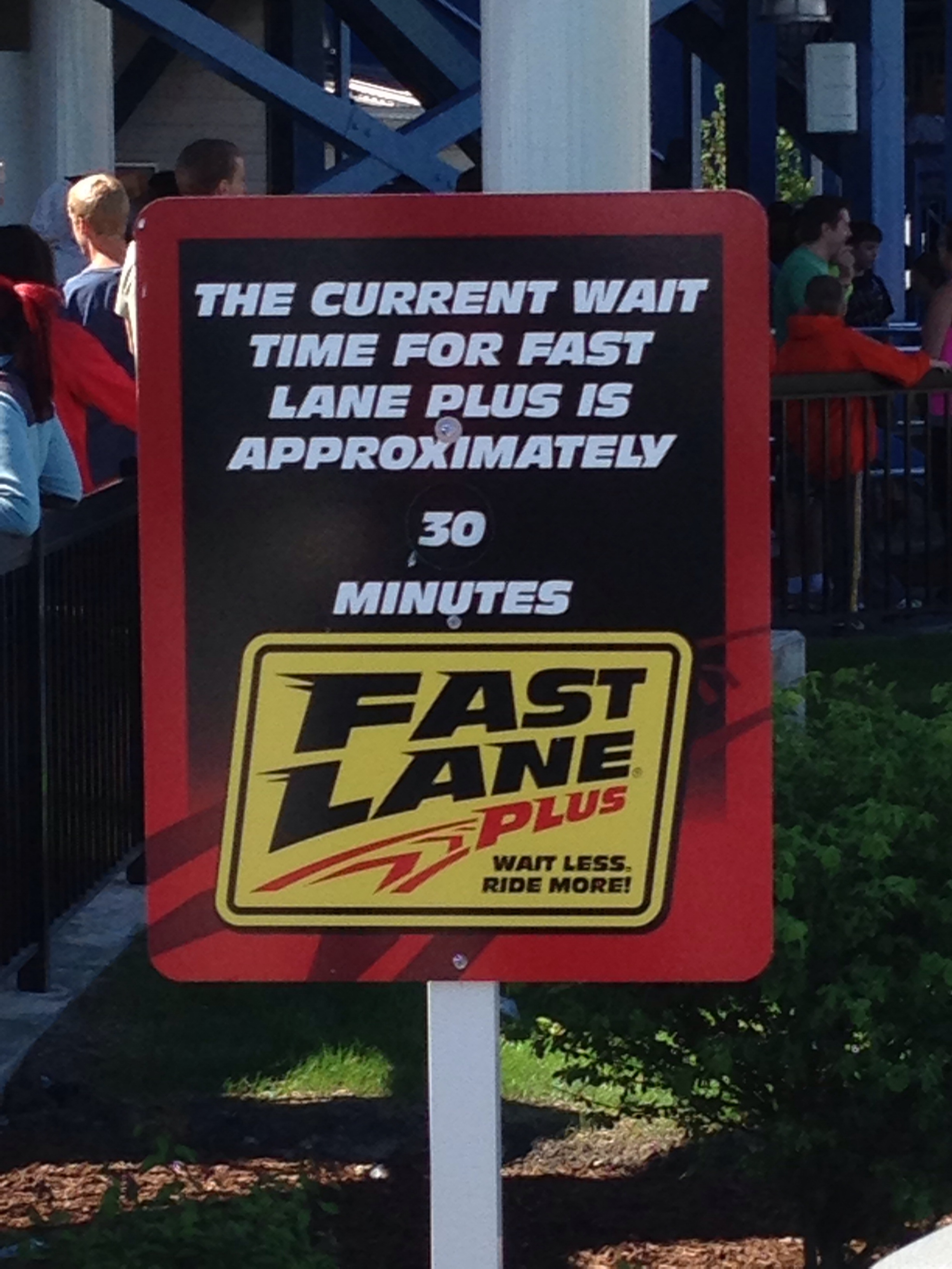 Cedar Point and Oberlin's Commencement